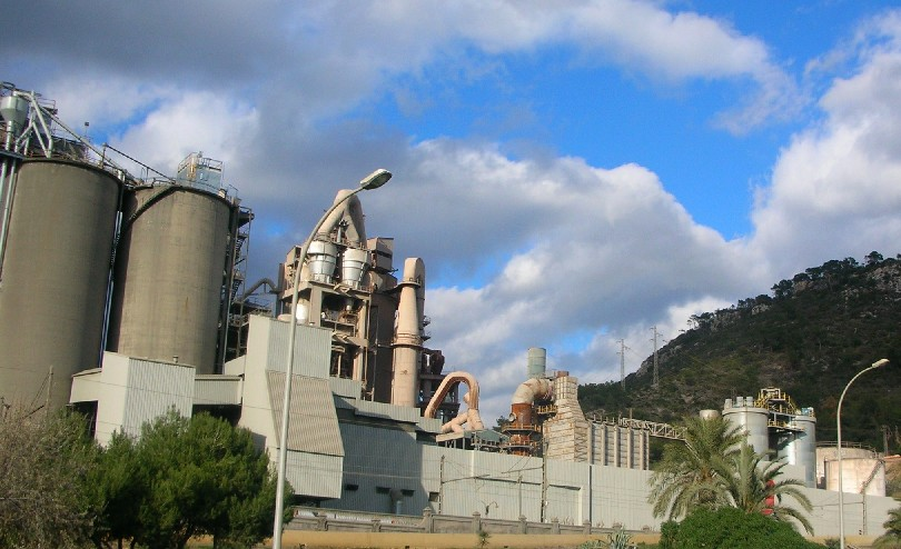 Vallcarca. Partial view of the Uniland cement factory in Vallcarca, north of Sitges